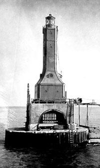 United States Coast Guard photograph of Indiana Harbor East Breakwater Light